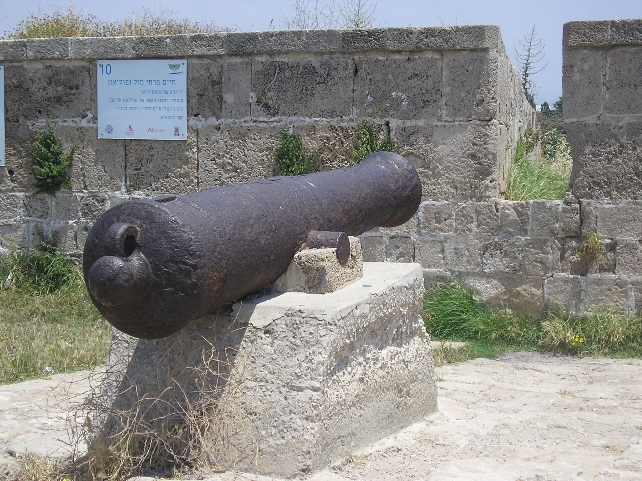 19th century cannon, in the walls of Akko (Acre), Israel, near a sign commemorating Haim Farkhi for his military achievements in resisting Napoleon's siege. תותח מהמאה ה-19 הקבוע בחומות עכו, בישראל, ולצידו שלט זכרון לחיים פרחי